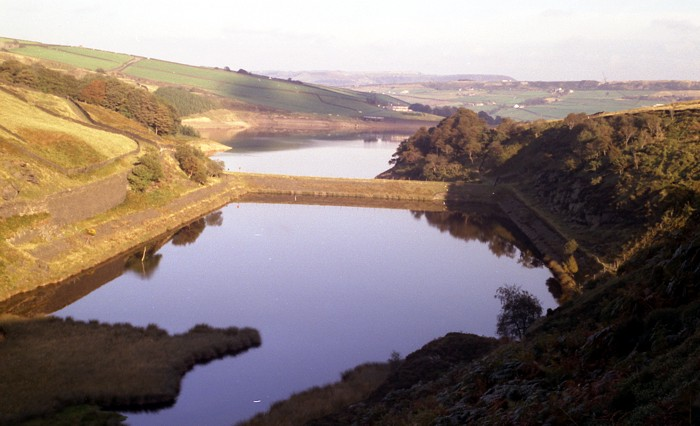 Photo of Bilberry & Digley Reservoirs, looking towards Holmfirth